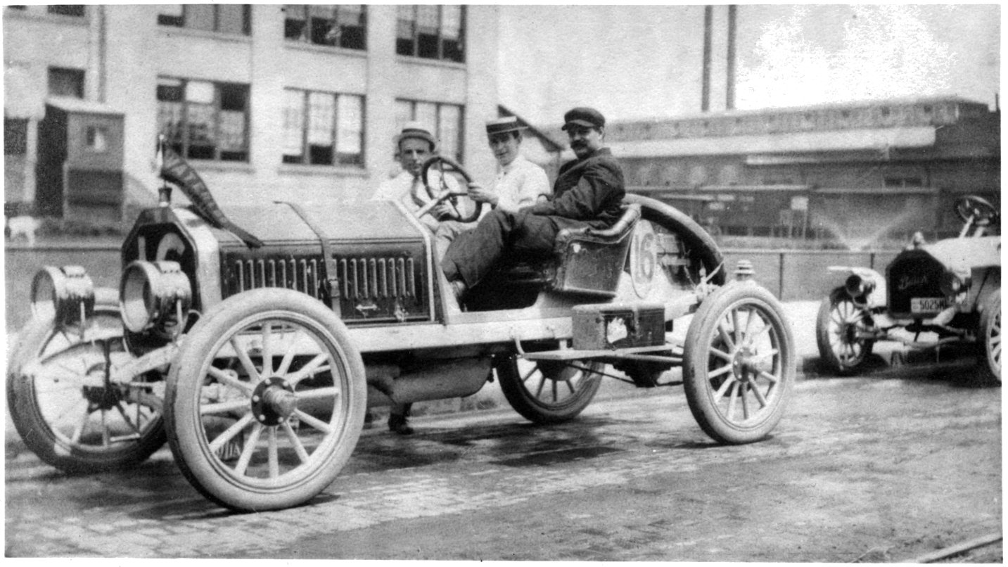 Louis Chevrolet (in dark clothes) sitting in Buick he designed, circa 1900.